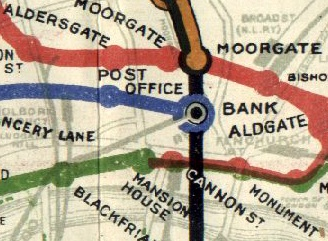 A portion of the 1908 map of the electric underground railways of London, showing the old "Post Office" station, which today is St. Paul's station.